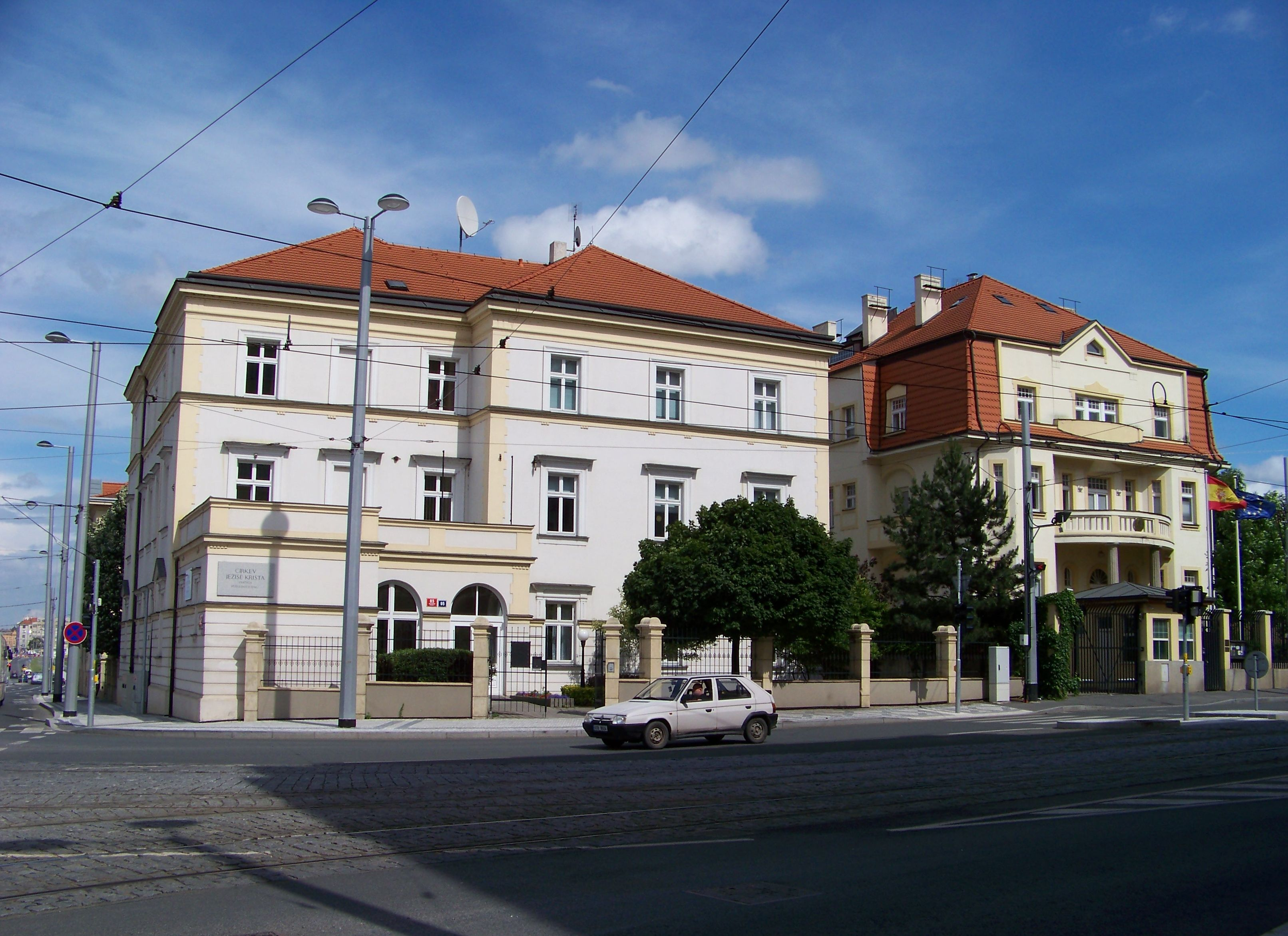 South-east corner of Milady Horákové and Badeniho street in Prague-Holešovice, the Czech Republic. The building to the right is the Spanish Embassy. The building on the corner is a meetinghouse of The Church of Jesus Christ of Latter-day Saints, which also houses a Family History Center and other offices. (Formerly, this building was a well-known old restaurant.) - Google Maps - Google Earth